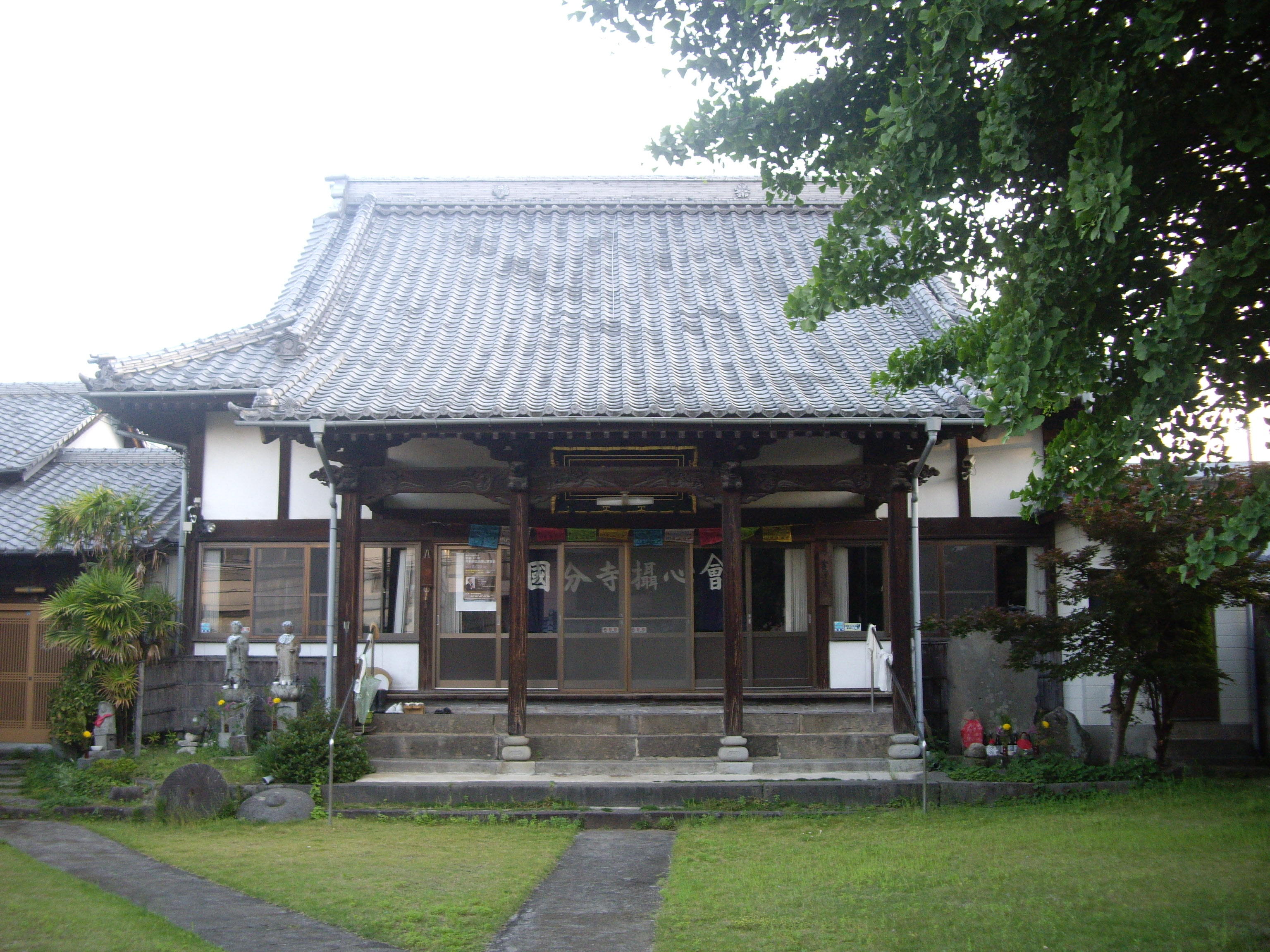 Kokubunji Temple, in Kumamoto, Kumamoto Prefecture, Japan